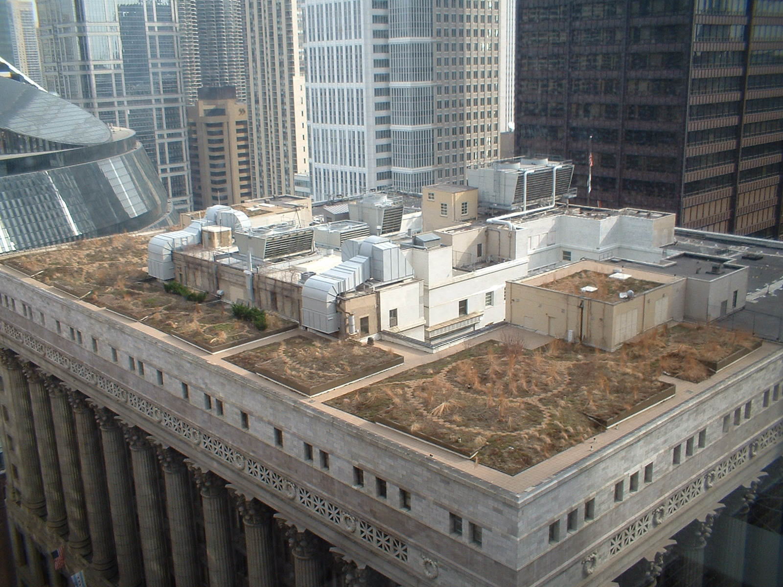 Green roof of City Hall, Chicago, Illinois, taken from across the street. Not looking very "green" unfortunately, due to the early spring time of the photograph.